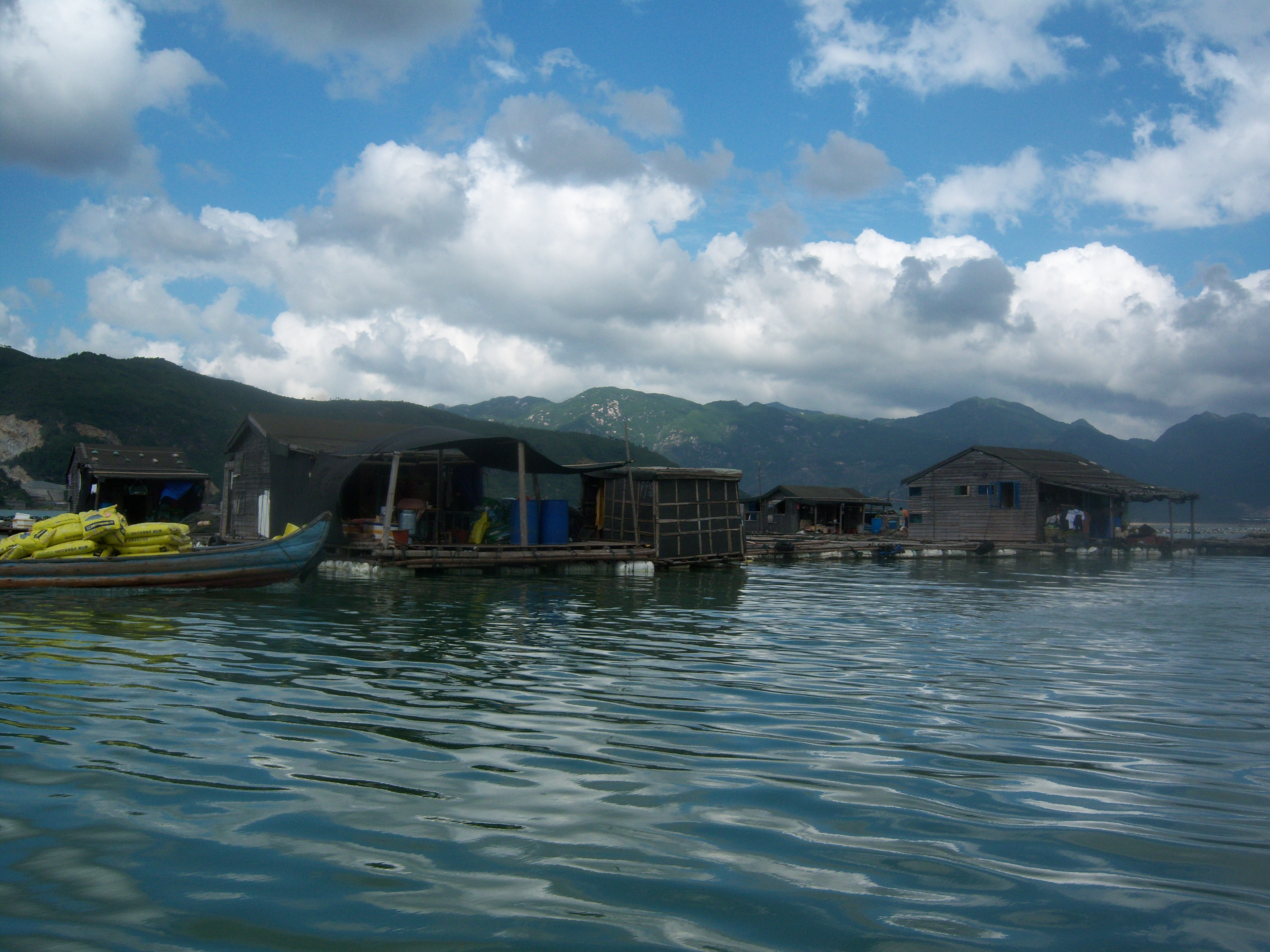 Luoyuan county of Fuzhou city, china